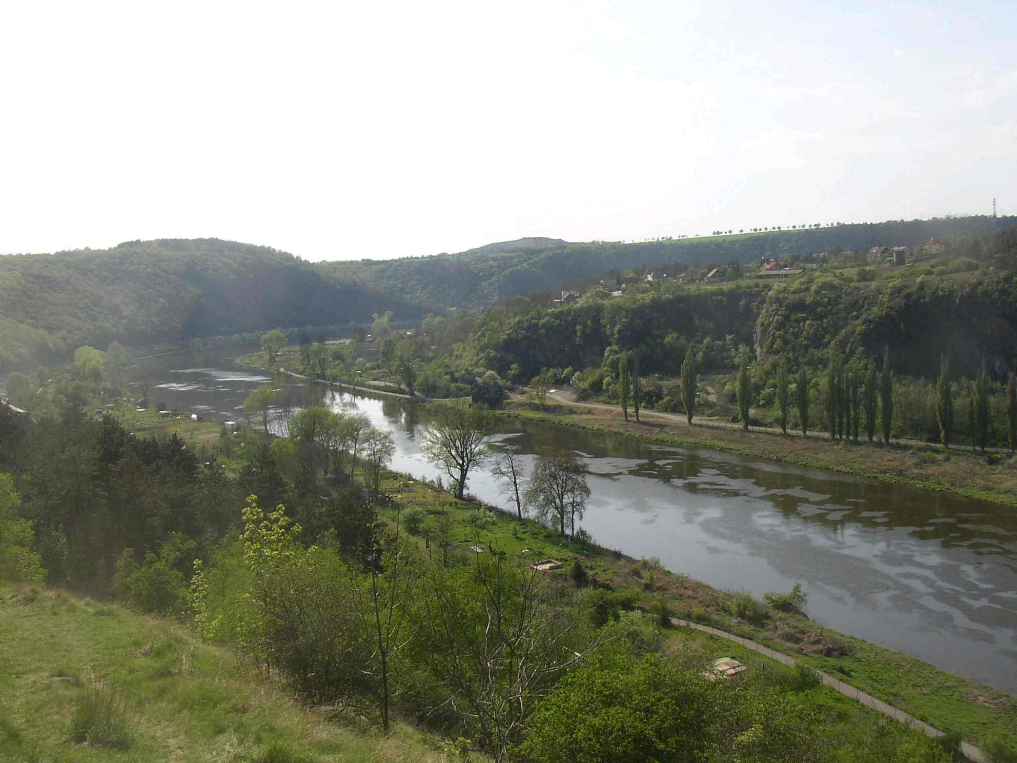 Vltava River 10 km north of Prague as seen from Levý Hradec